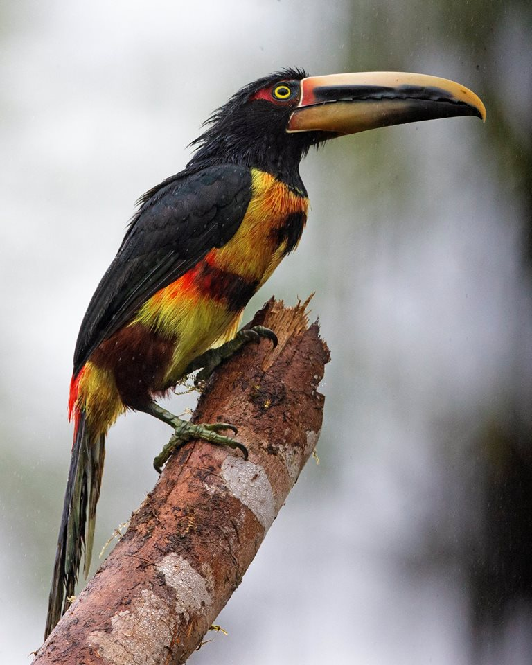 Pale-billed Araçari Pteroglossus erythropygius 12th. June 2018 Mashpi Ecuador Elevation 800m